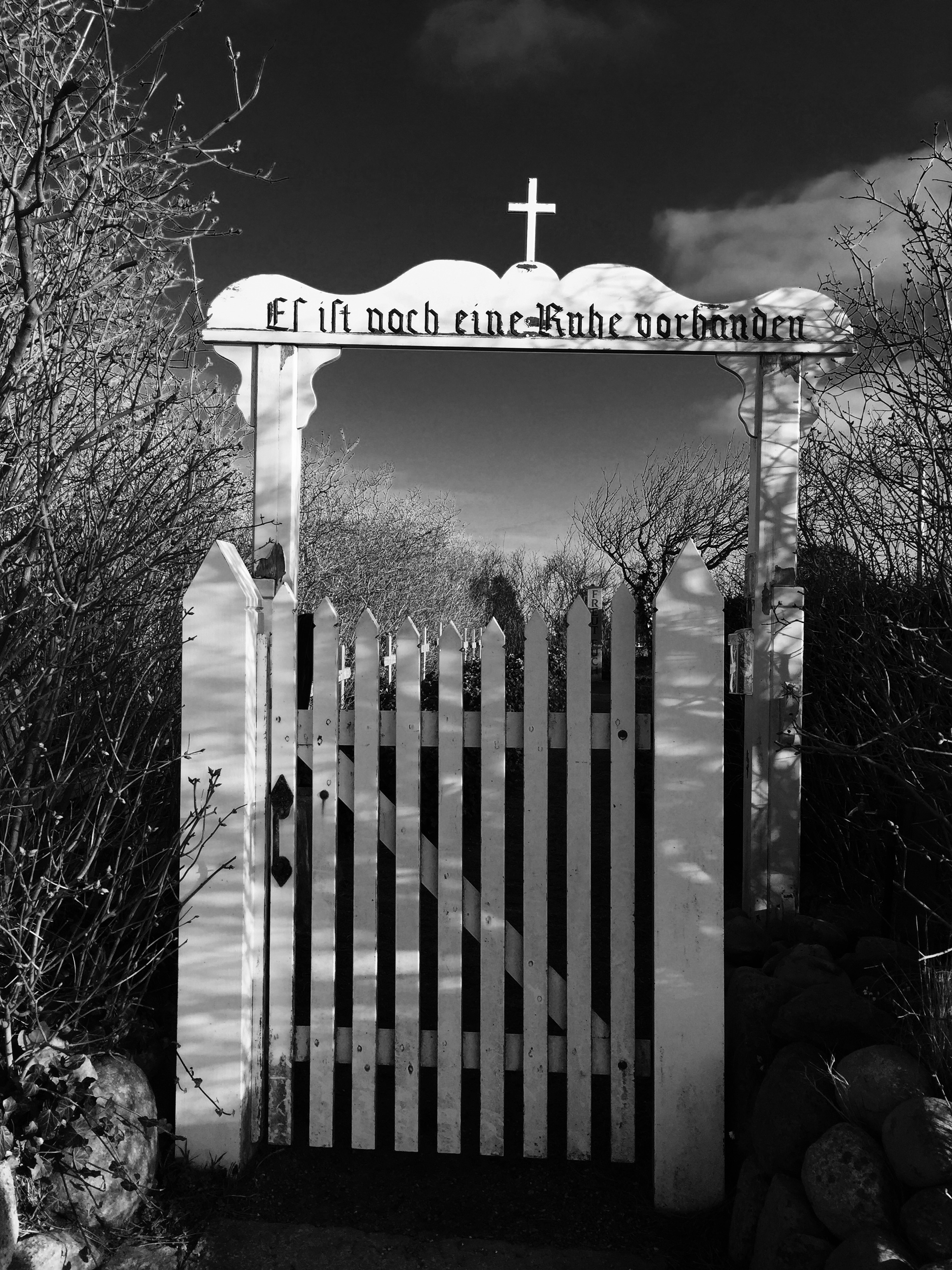 The making of this document was supported by the Community-Budget of Wikimedia Germany. Friedhof der Heimatlosen (Nebel auf Amrum)